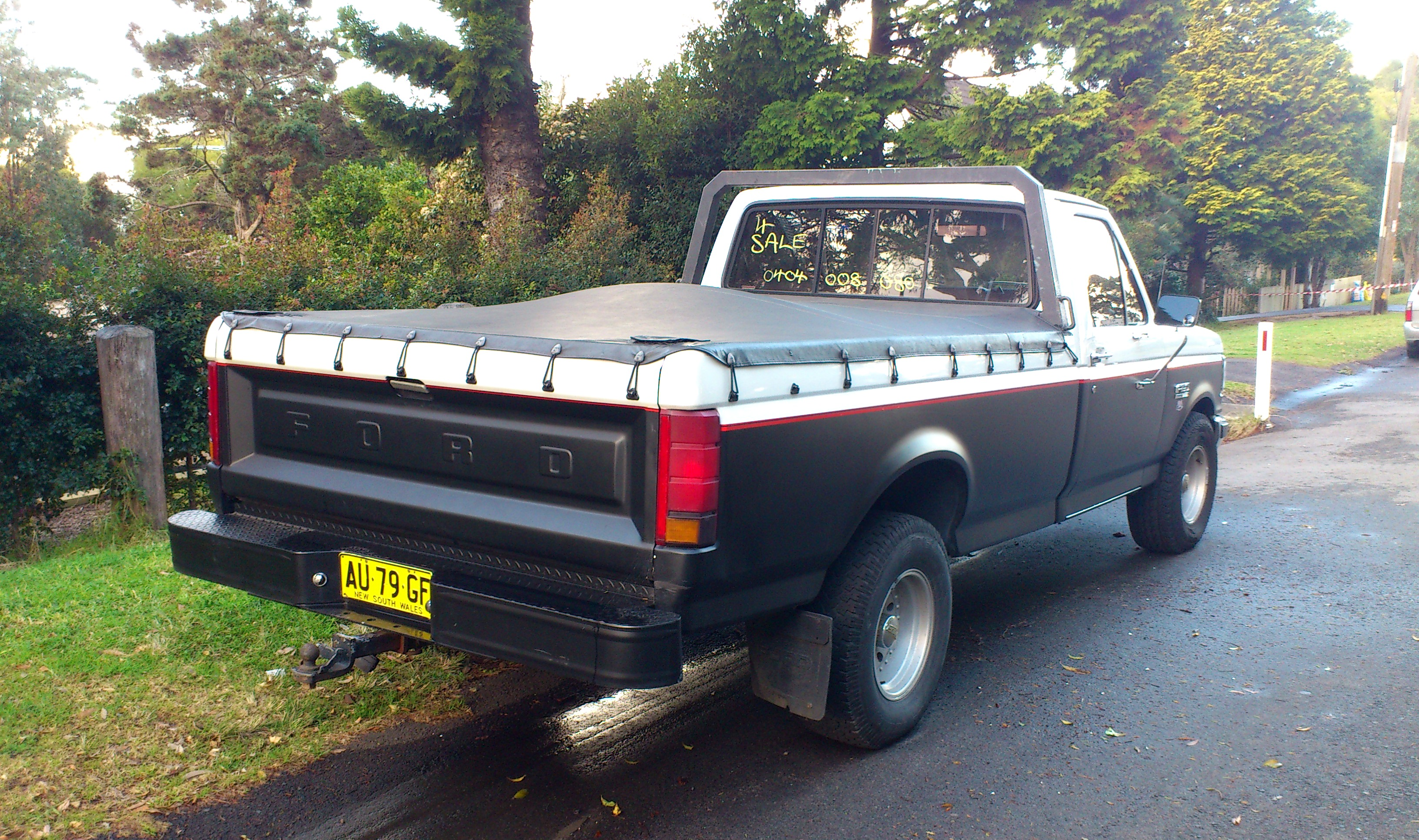 Ford F150 Custom